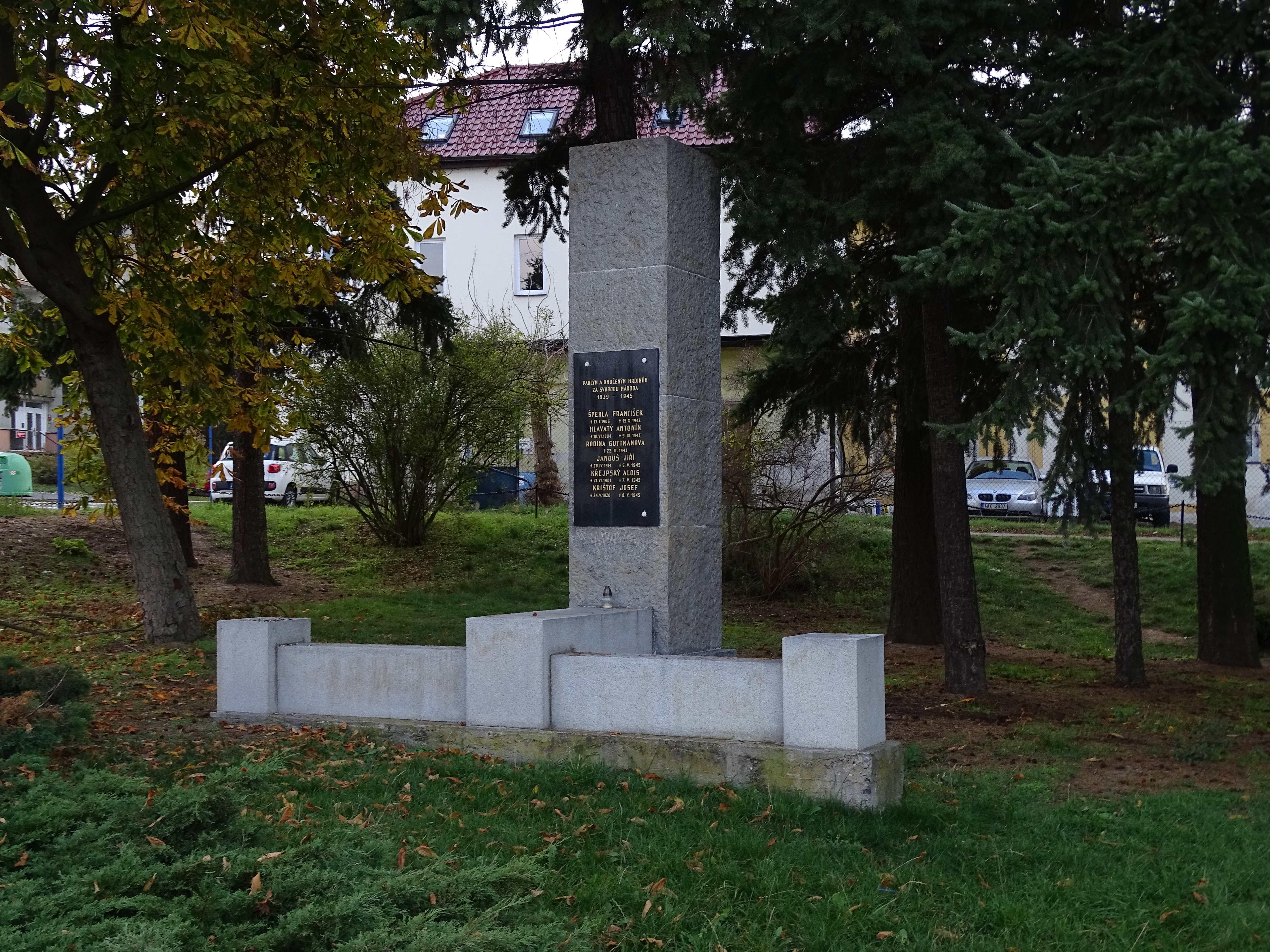 Prague-Háje, Czechia, Výstavní and Květnového vítězství street, WWII memorial.